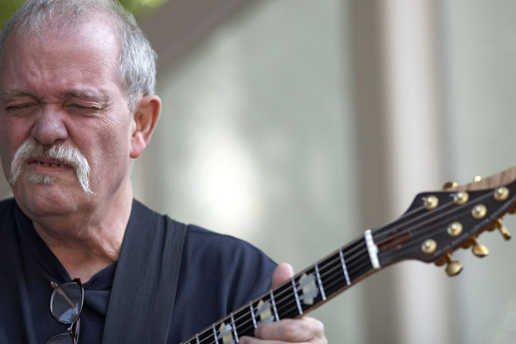 John Abercrombie 2007 (at Hofgarten Düsseldorf, with Marc Copland Quartet)